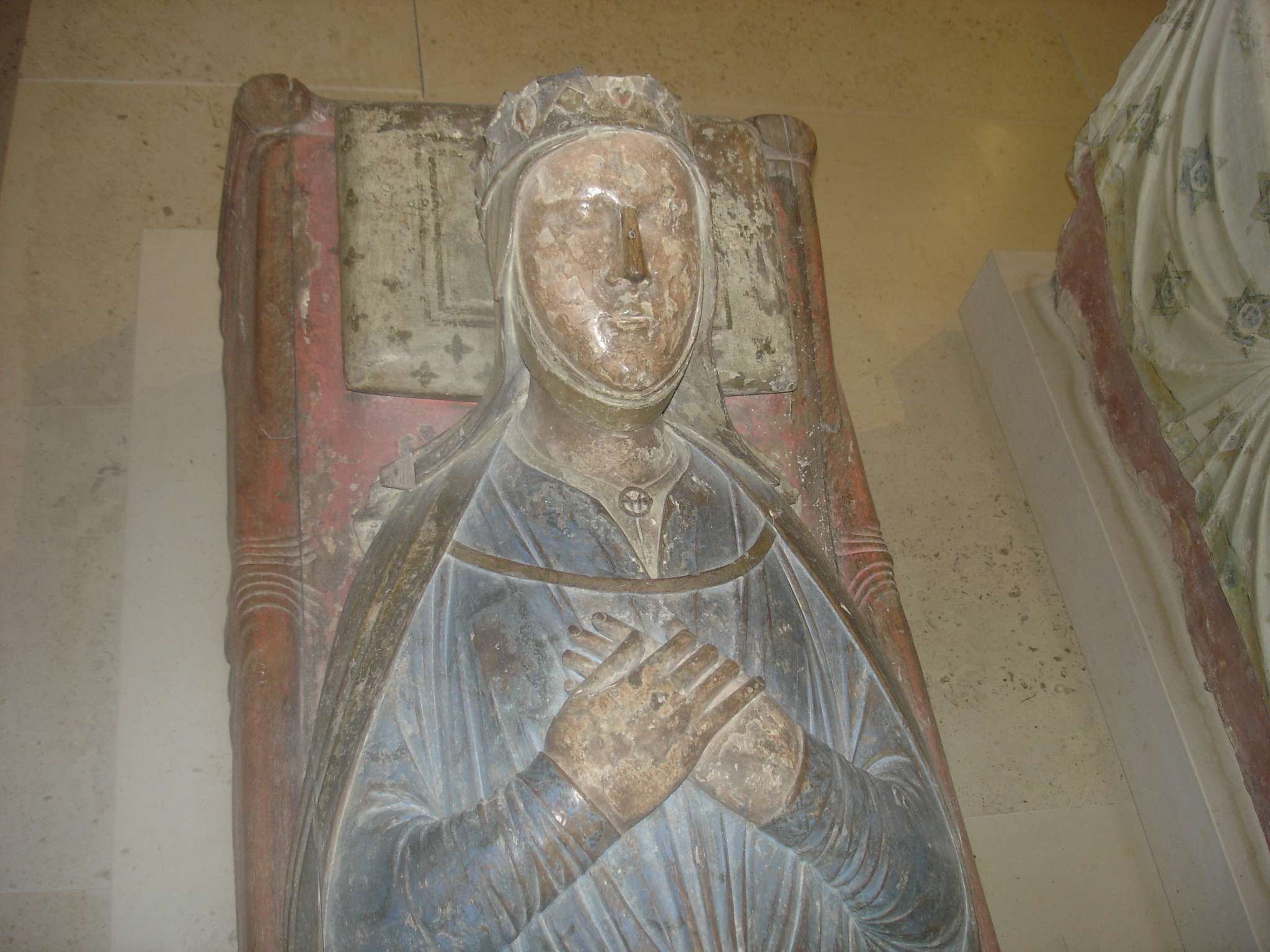 Isabella of Angoulême, tomb in the church of Fontevraud Abbey (France)